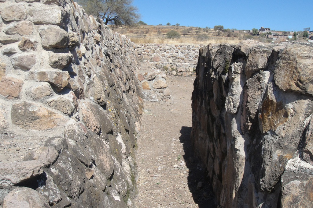 Template:Huandacareo, south east structure access